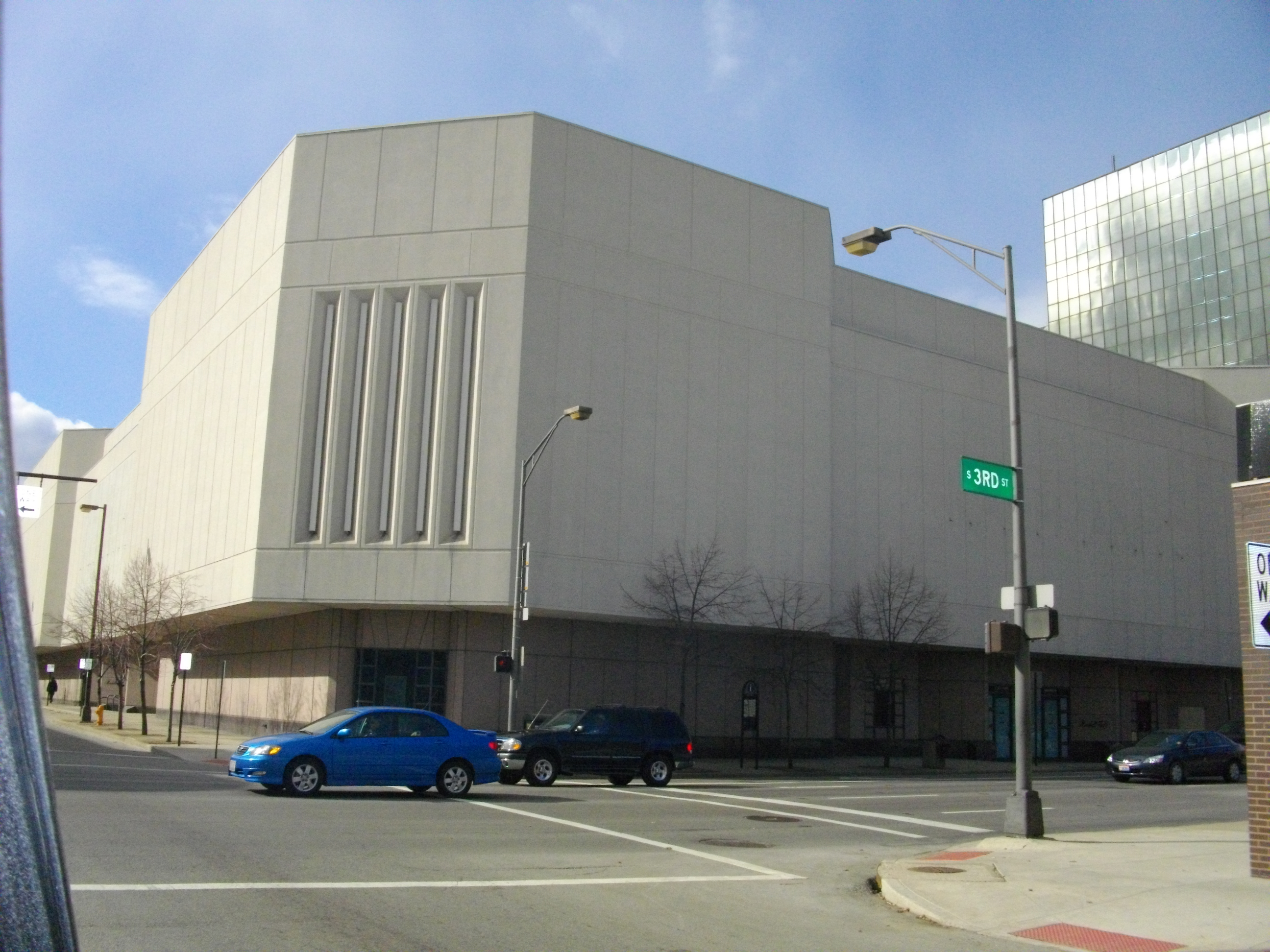 Picture of the exterior of the Columbus City Center mall. This is the former Marshall Field's/Kaufmann's/Macy's anchor store, as seen from the intersection of East Rich St. and South Third St.